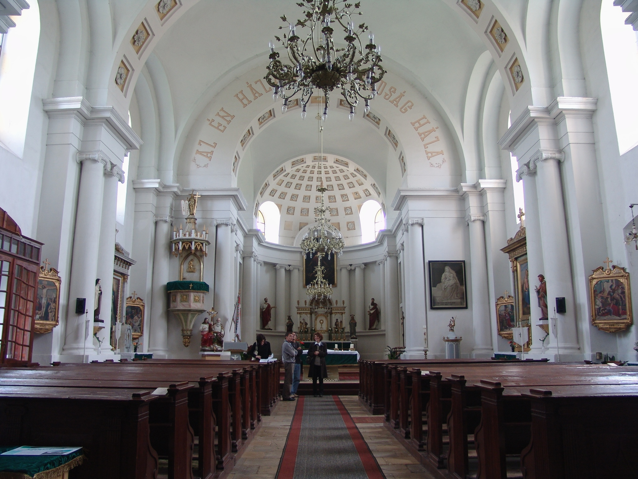 Roman Catholic church in Beodra - view from the nave to the altar Српски (ћирилица): Rimokatolička crkva u Beodri - brod ka oltaru